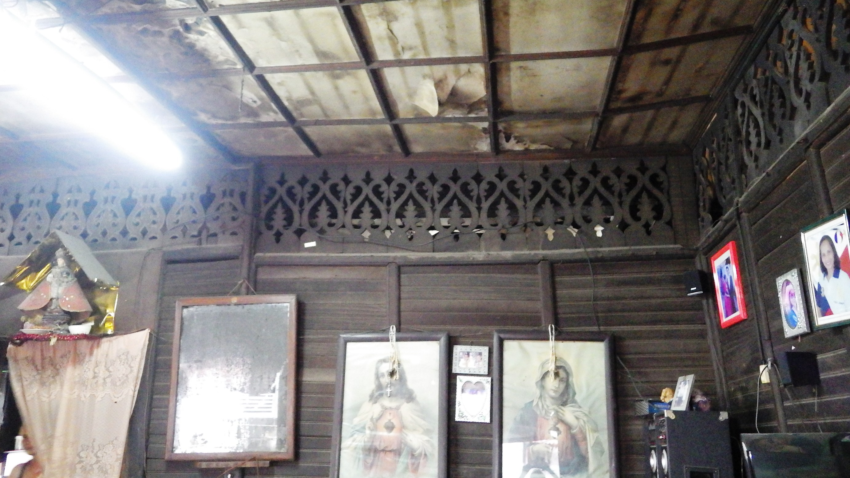 interior